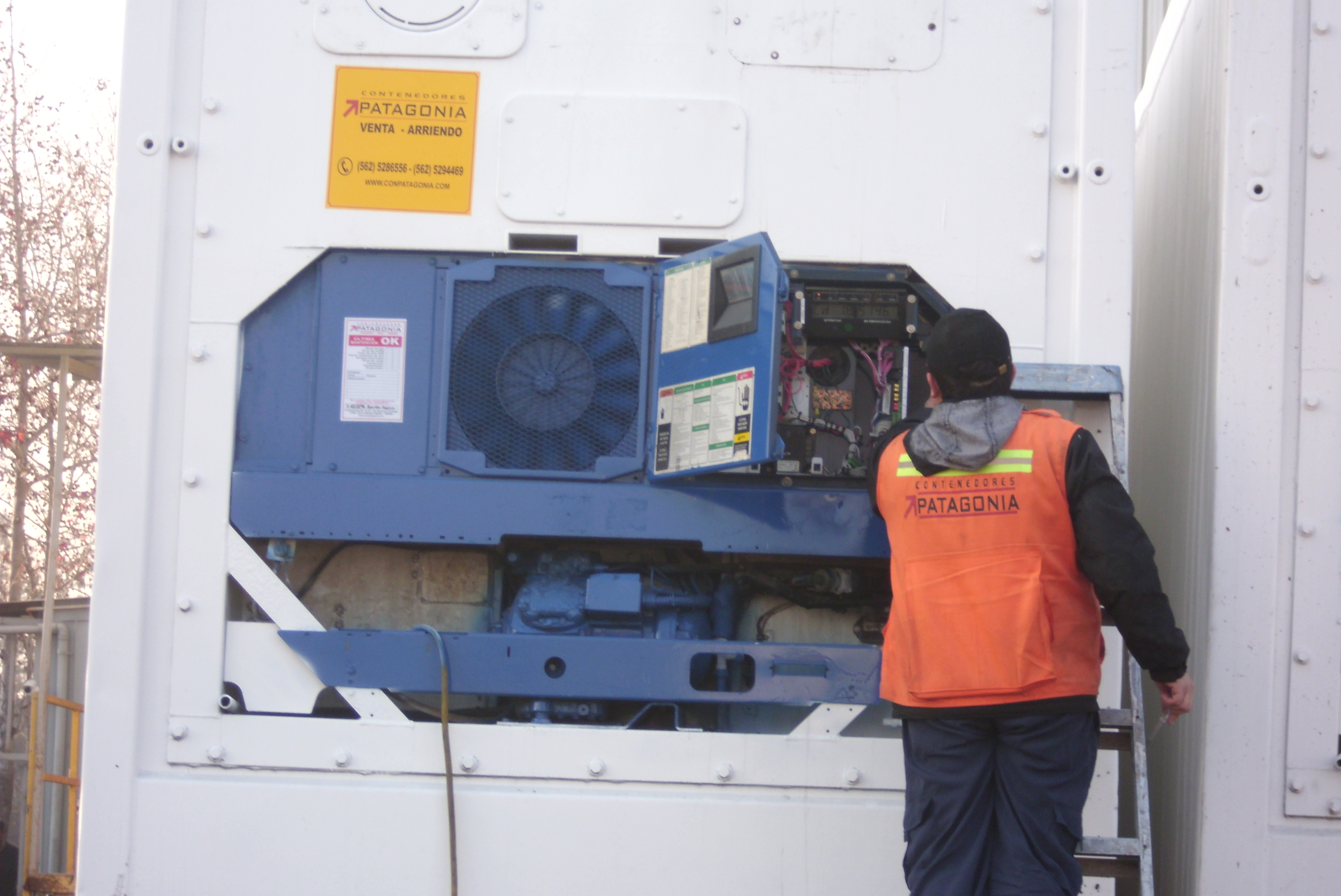 A 20ft Refrigerated container.